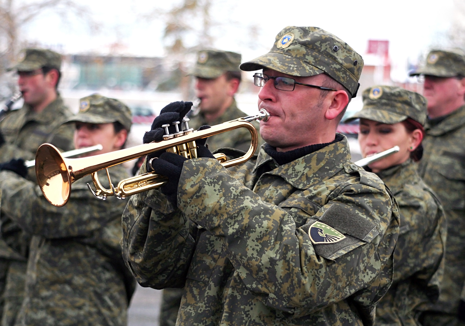 Celebration in Adem Jashari Barrack in honor of the day of establishment of the KSF (Kosovo Army). 27 November the official day of establishment of the KSF.